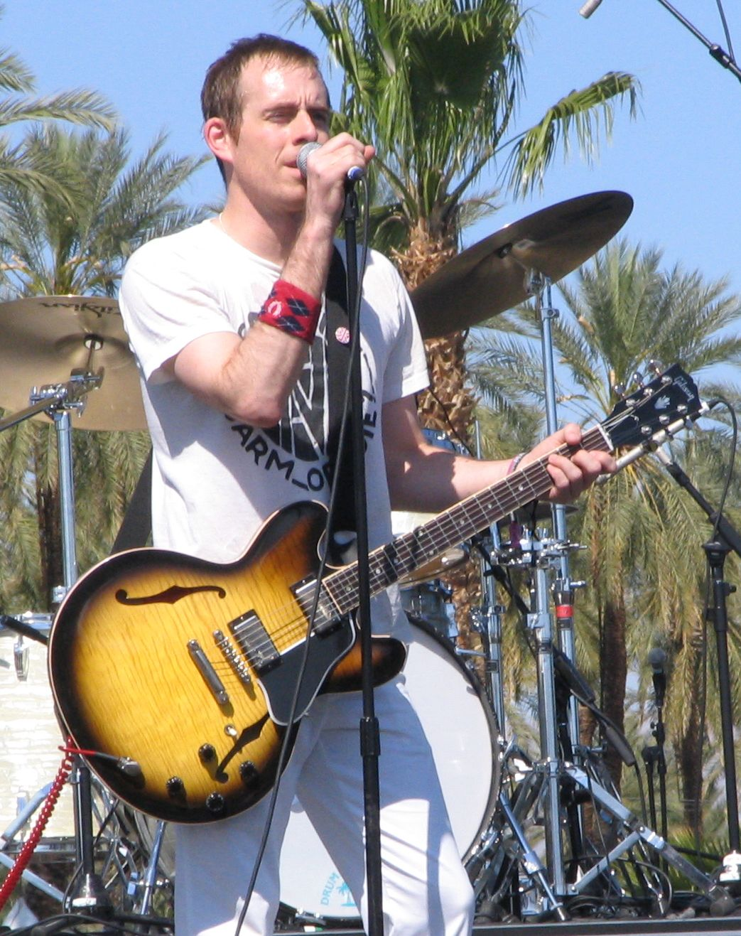 Ted Leo of Ted Leo and the Pharmacists performing live at the 2006 Coachella Valley Music and Arts Festival